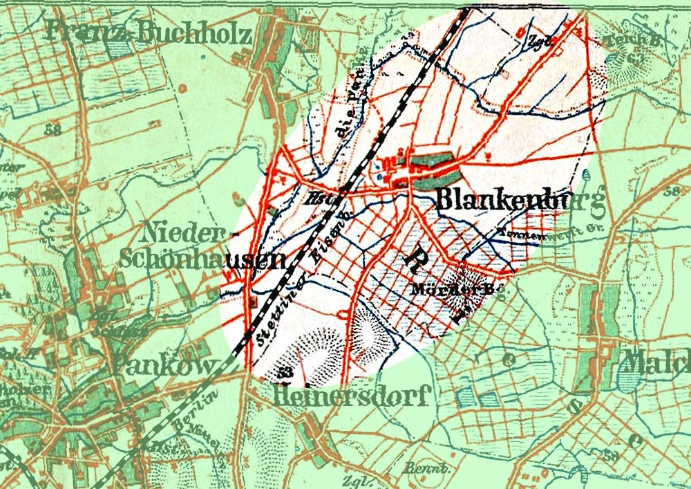 Situation of Blankenburg (today Berlin-Blankenburg in Pankow) in 1894.